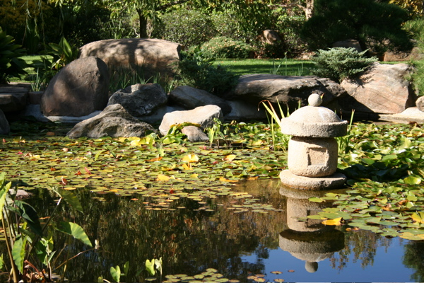 Lake in Himeji Gardens, Adelaide Himeji Gardens, Own Photo